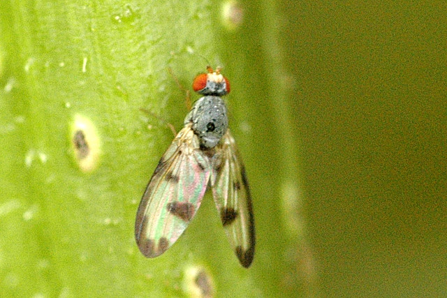 Picture taken in Commanster, Belgian High Ardennes. Species: Palloptera umbellatarum